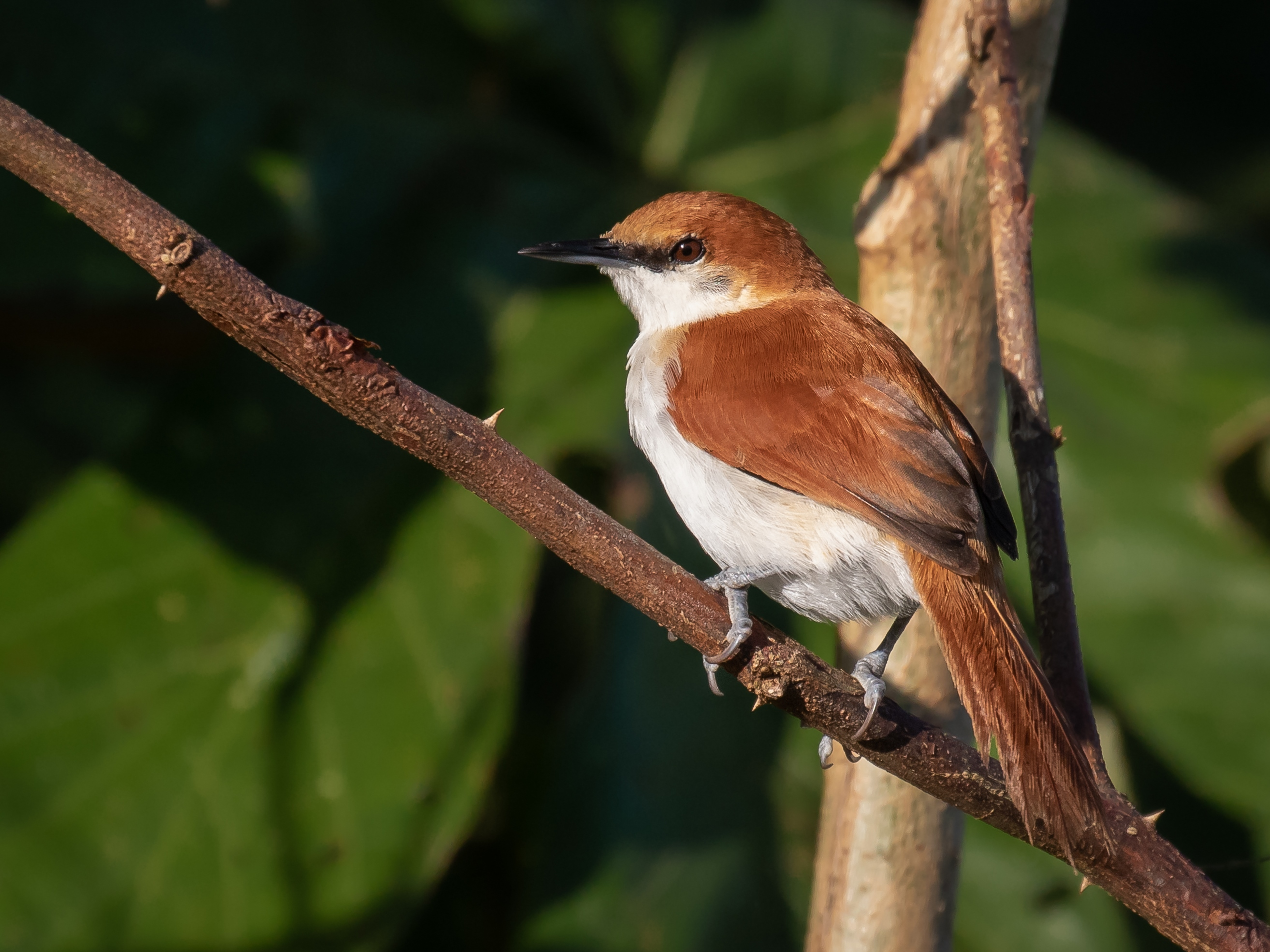 Red-and-white spinetail, Iranduba, Amazonas, Brazil